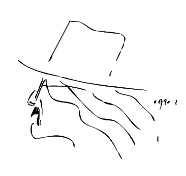 Richard Brautigan, last of the beat.